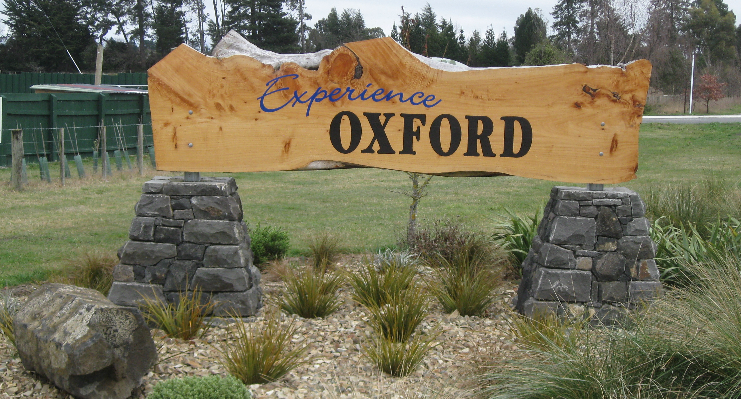 Entrance to Oxford